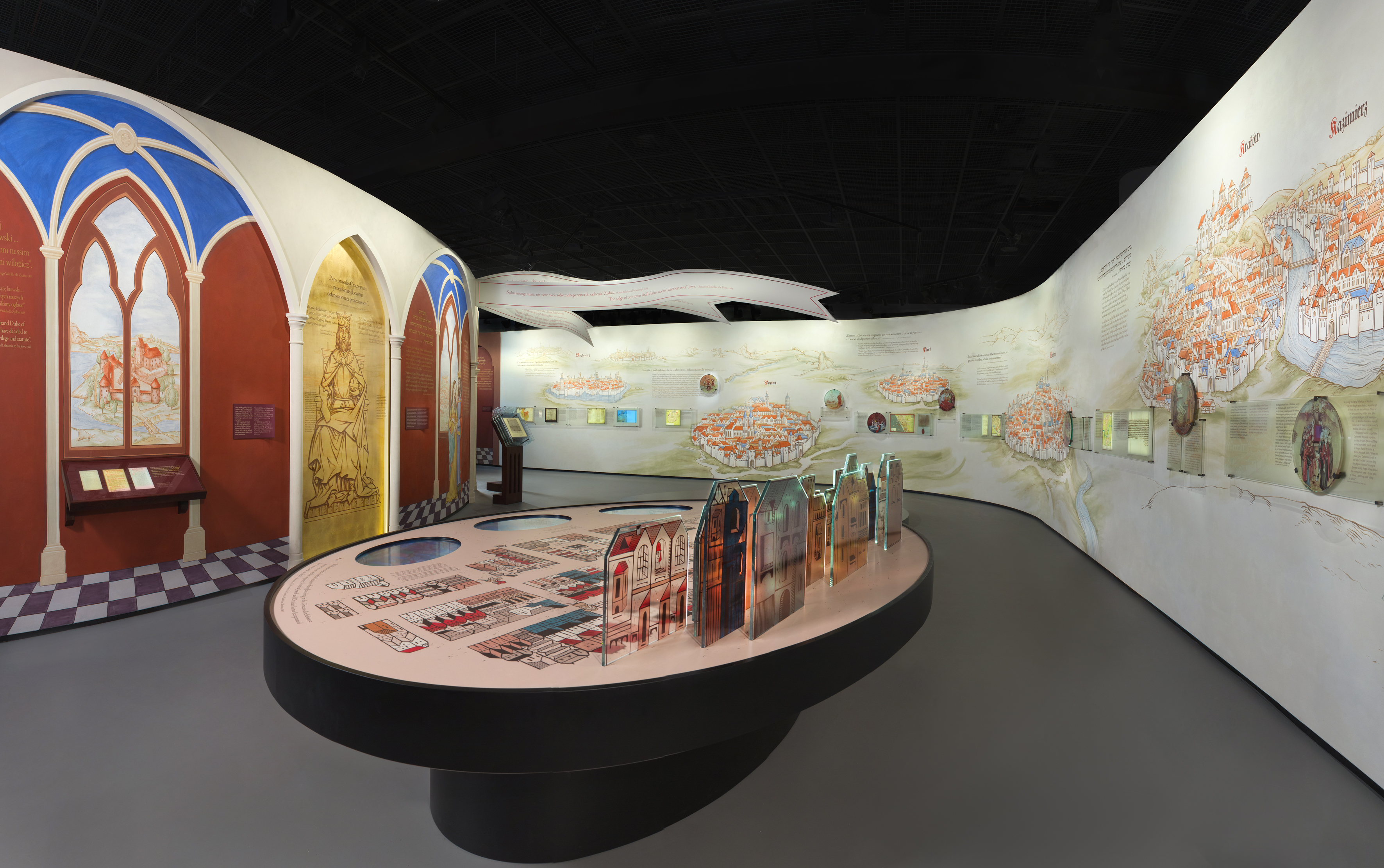 Main exhibition of the Museum of the History of Polish Jews in Warsaw. "First Encounters" gallery